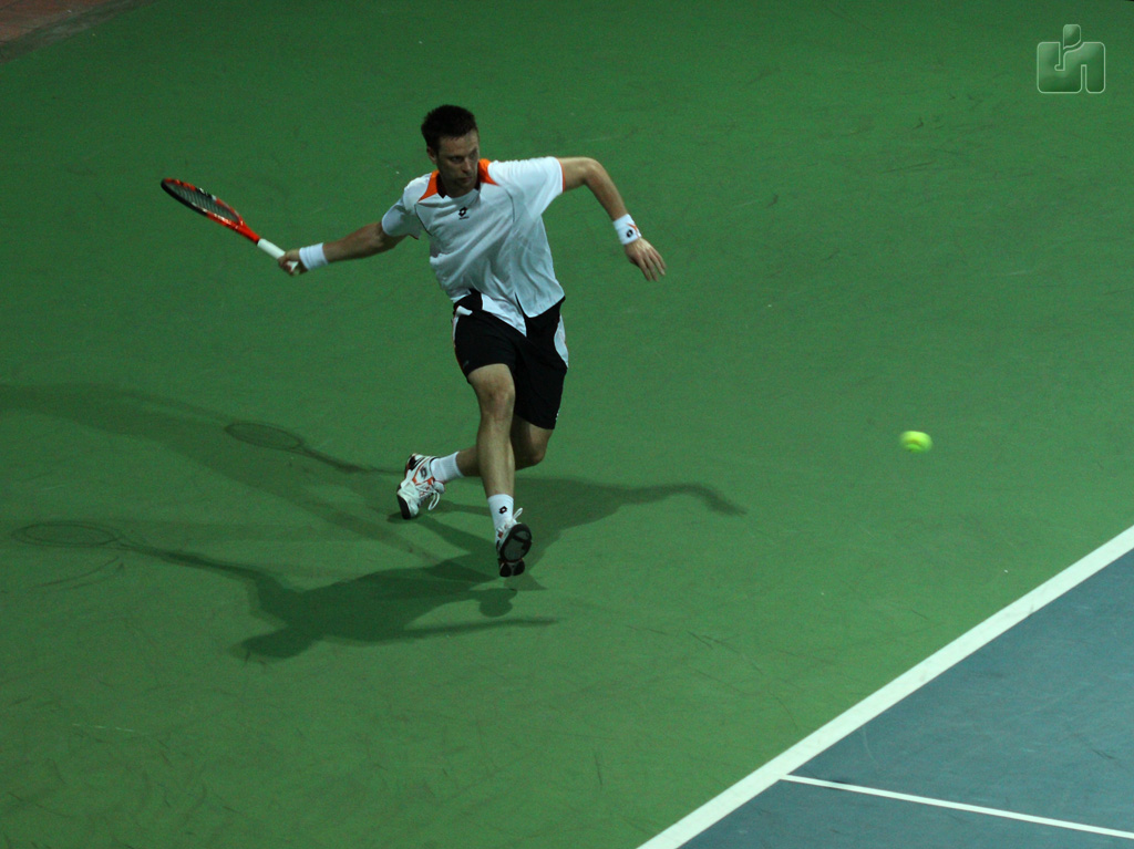 Robin Soderling at the Chennai Open 2010. It was my first visit to the ATP tour and I was there with Varun Shridhar who is a regular. Had plenty of trouble getting acquainted to Sports photography.